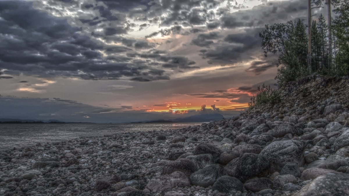 HDR image of the Hornavan lake while sunset.